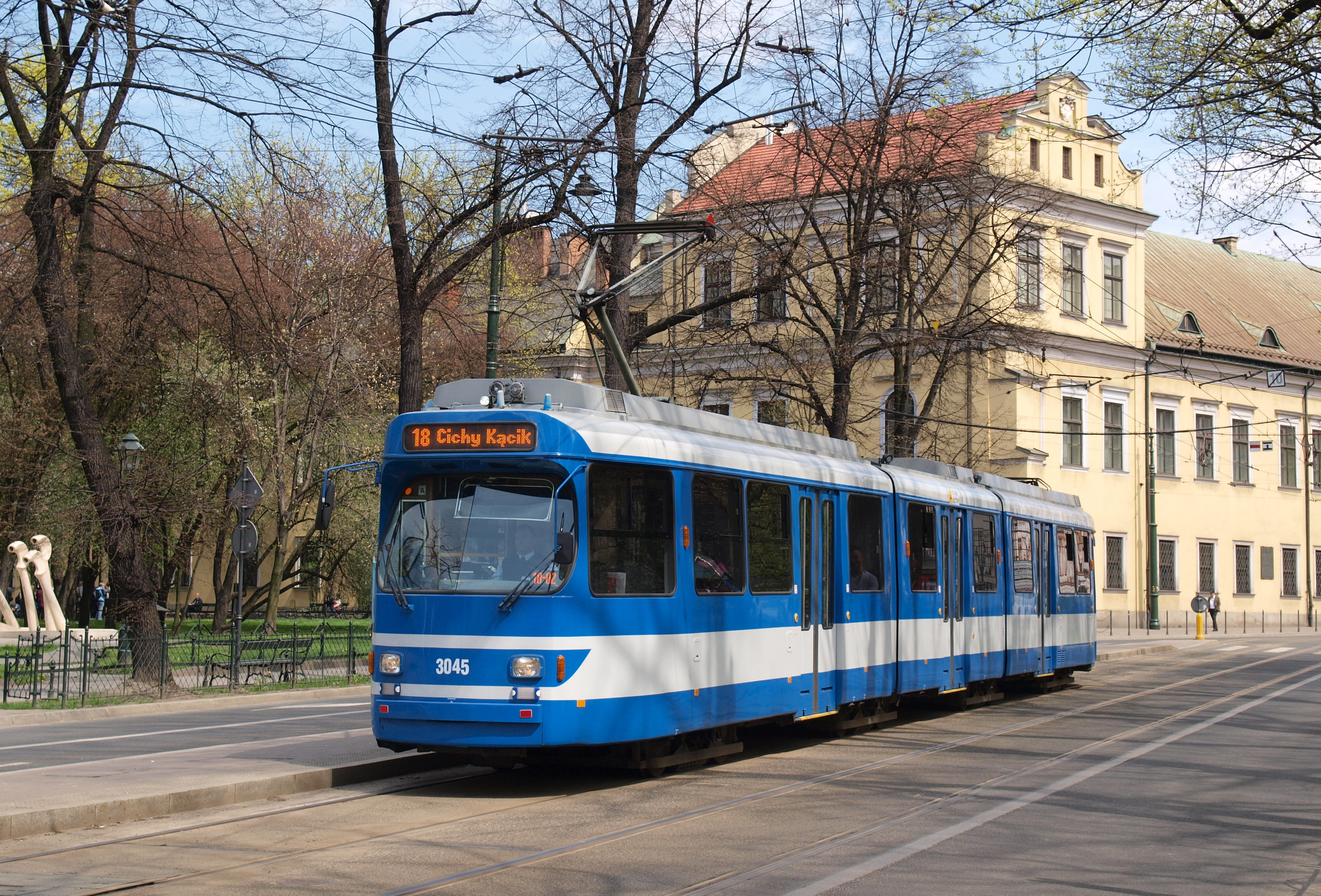 GT8S tram from Dusseldorf in Kraków.